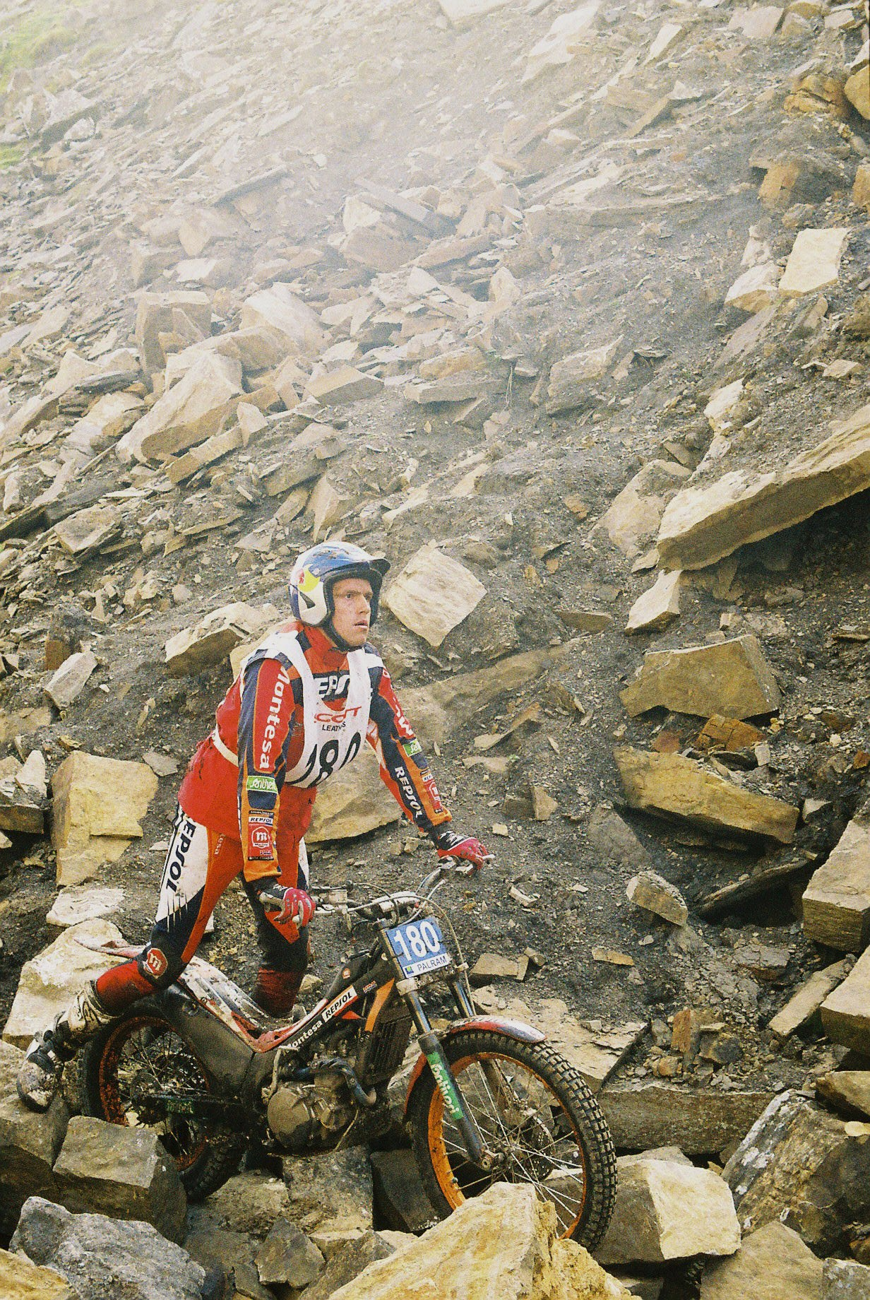 Doug Lampkin. Winner Scott Trial 2007. At section 42. Riding a Repsol Montesa 4RT 249.